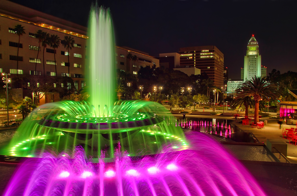 Grand Park at night — with the illuminated Arthur J. Will Memorial Fountain, and Los Angeles City Hall in background.